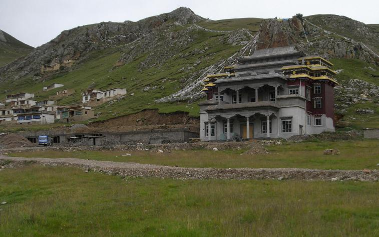 New temple hall of Nedo Gompa in Yushu